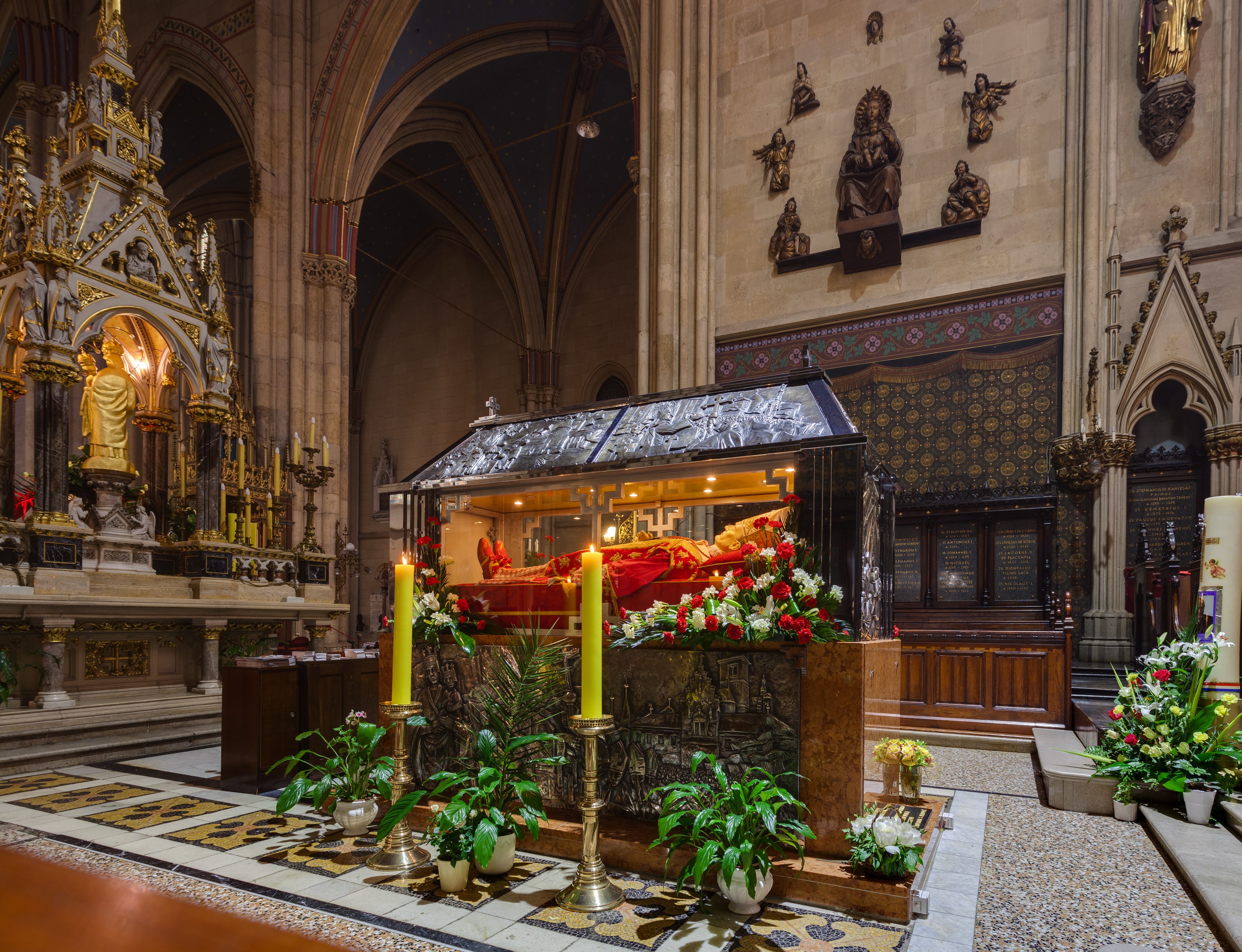 Sarcophagus with plastic doll as the imitation figure of blessed Alojzije Stepinac, Zagreb Cathedral, Croatia